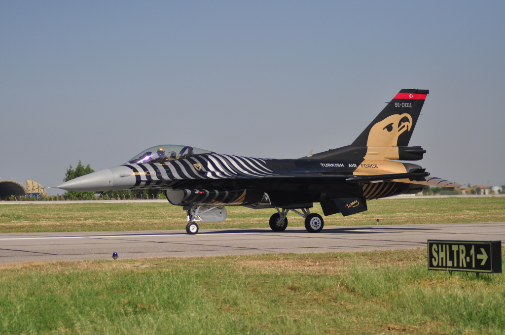 F-16 aircraft of Solo Türk team